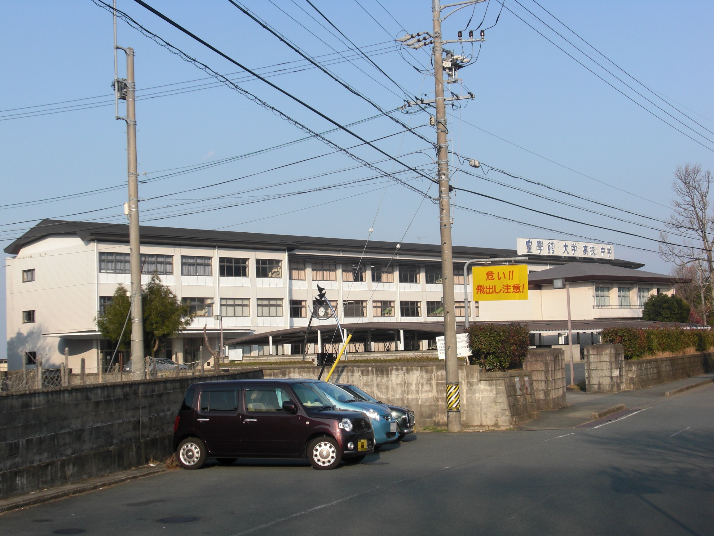 This is a private high school in Mie,Japan.